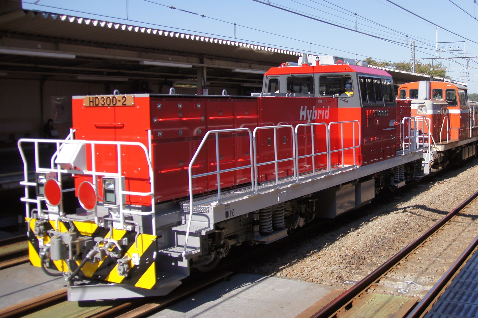 No. 1 end of JR Freight Class HD300 diesel-hybrid locomotive HD300-2 on delivery from Toshiba at Nishi-Kokubunji Station